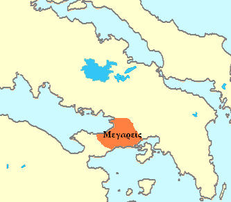 Map of ancent Megarida